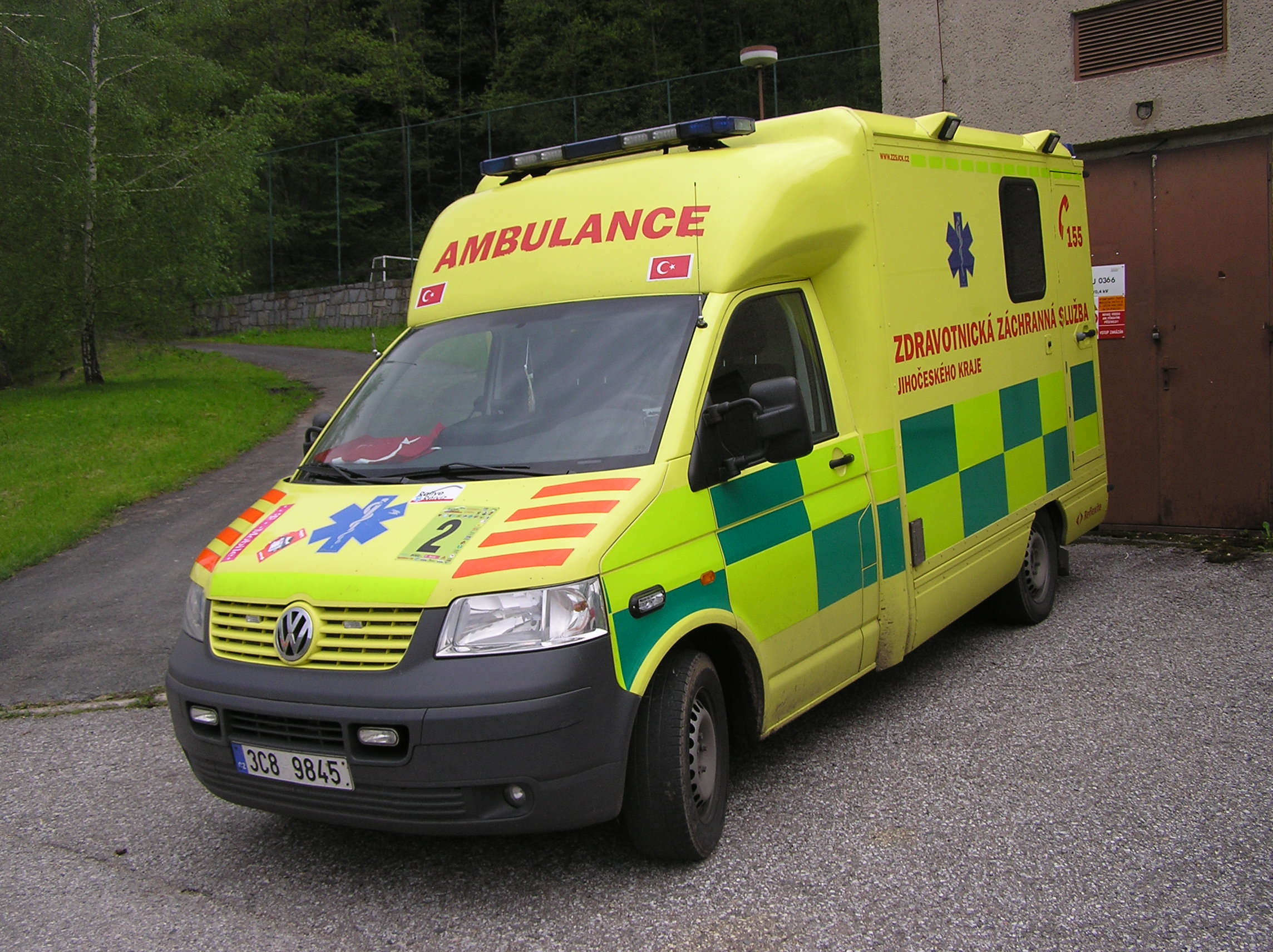 Volkswagen Transporter T5 Strobel ambulance vehicle class C of the Emergency Medical Services of South Bohemian Region, Czech Republic. Photo was taken during the international competition Rallye Rejvíz 2010 in Kouty nad Desnou, Czech Republic